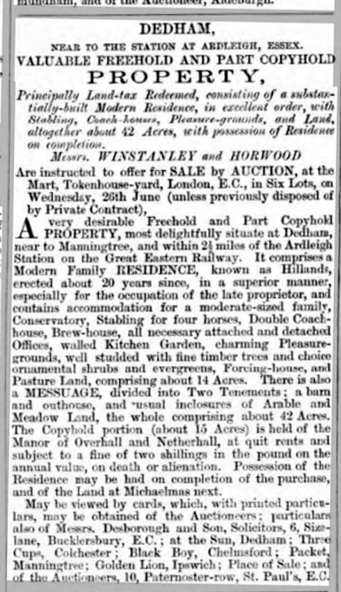 Sale notice for Maison Talbooth (then called Hillands) in Dedham, Essex, 1867